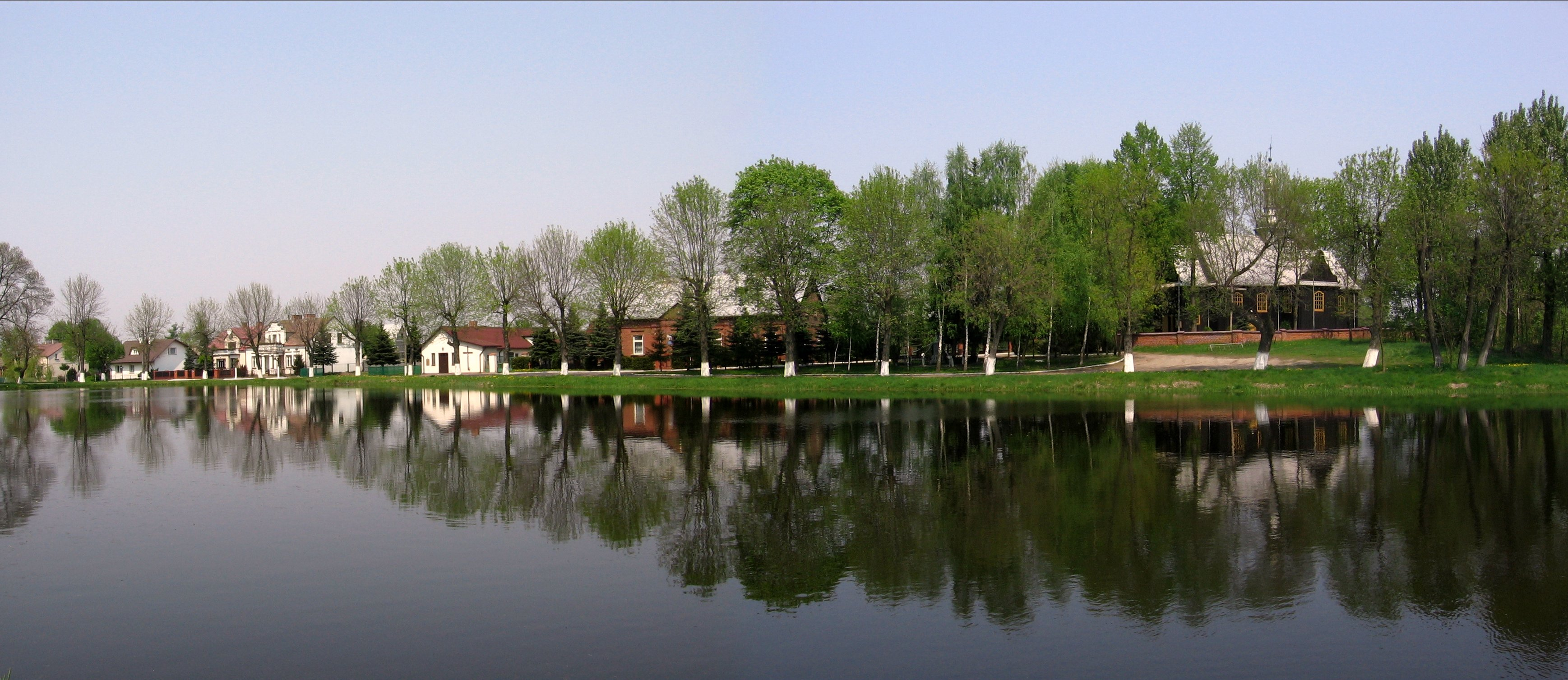 the pond in the middle of village Rossoszyca in central Poland (45 km south-west from Łódź)